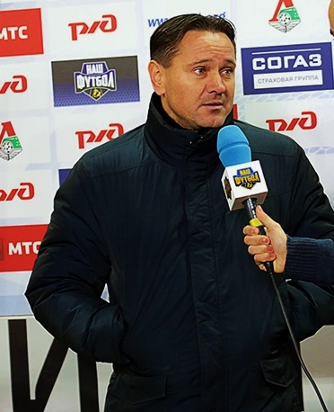 Dmitri Alenichev